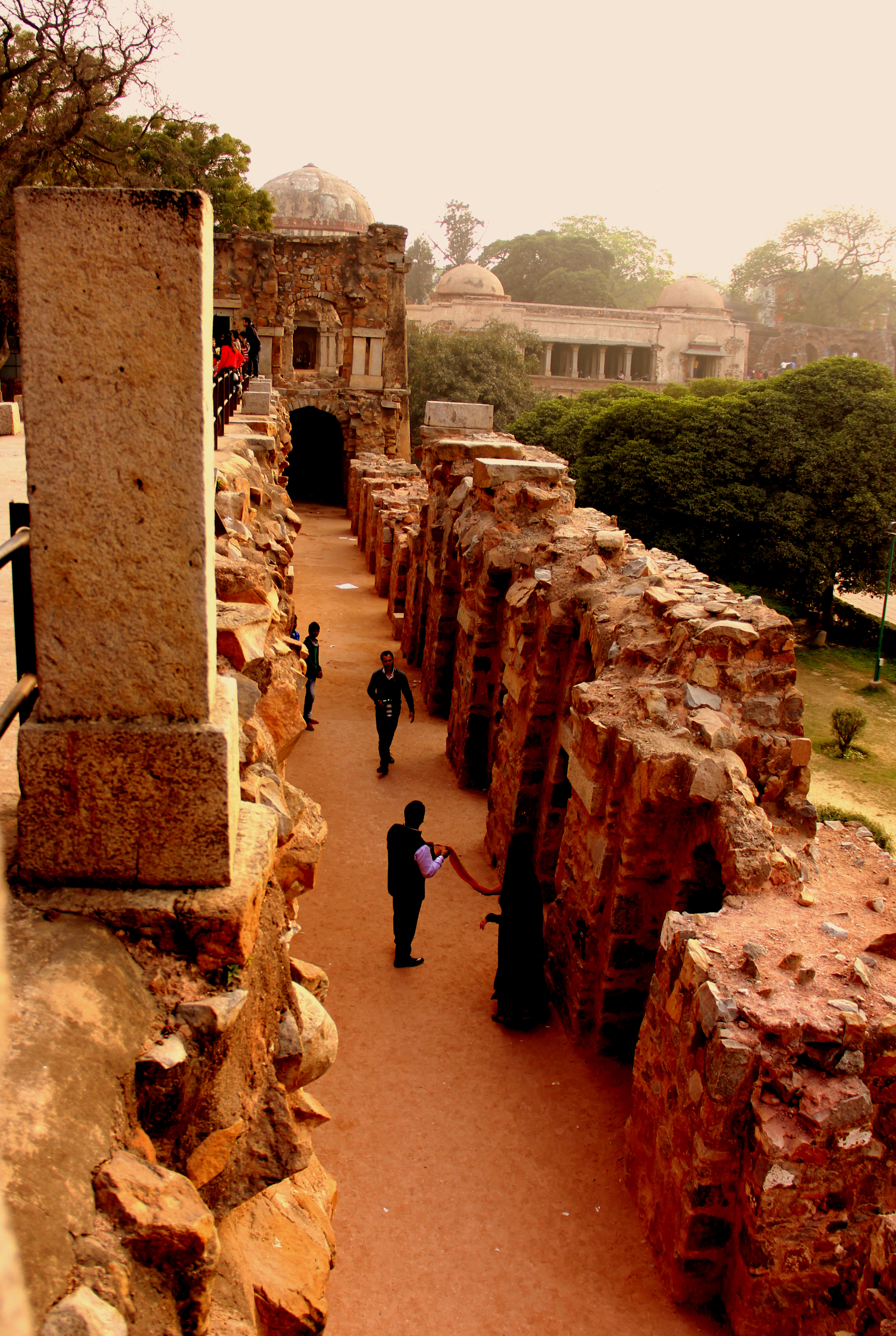 Hauz Khas (#Hindi: हौज़ ख़ास, #Punjabi: ਹੌਜ਼ ਖ਼ਾਸ, #Urdu: حوض خاص) in South Delhi, an Islamic seminary, a mosque, a tomb and pavilions built around an urbanized village with medieval history traced to the 13th century of Delhi Sultanate reign.